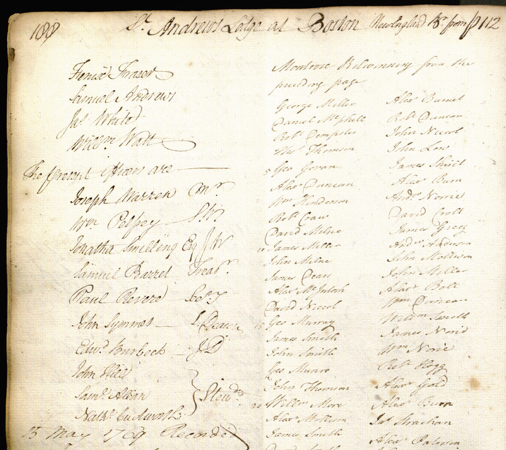 Image from the membership registers held by the Grand Lodge of Free and Accepted Masons of Scotland (The Grand Lodge of Scotland).